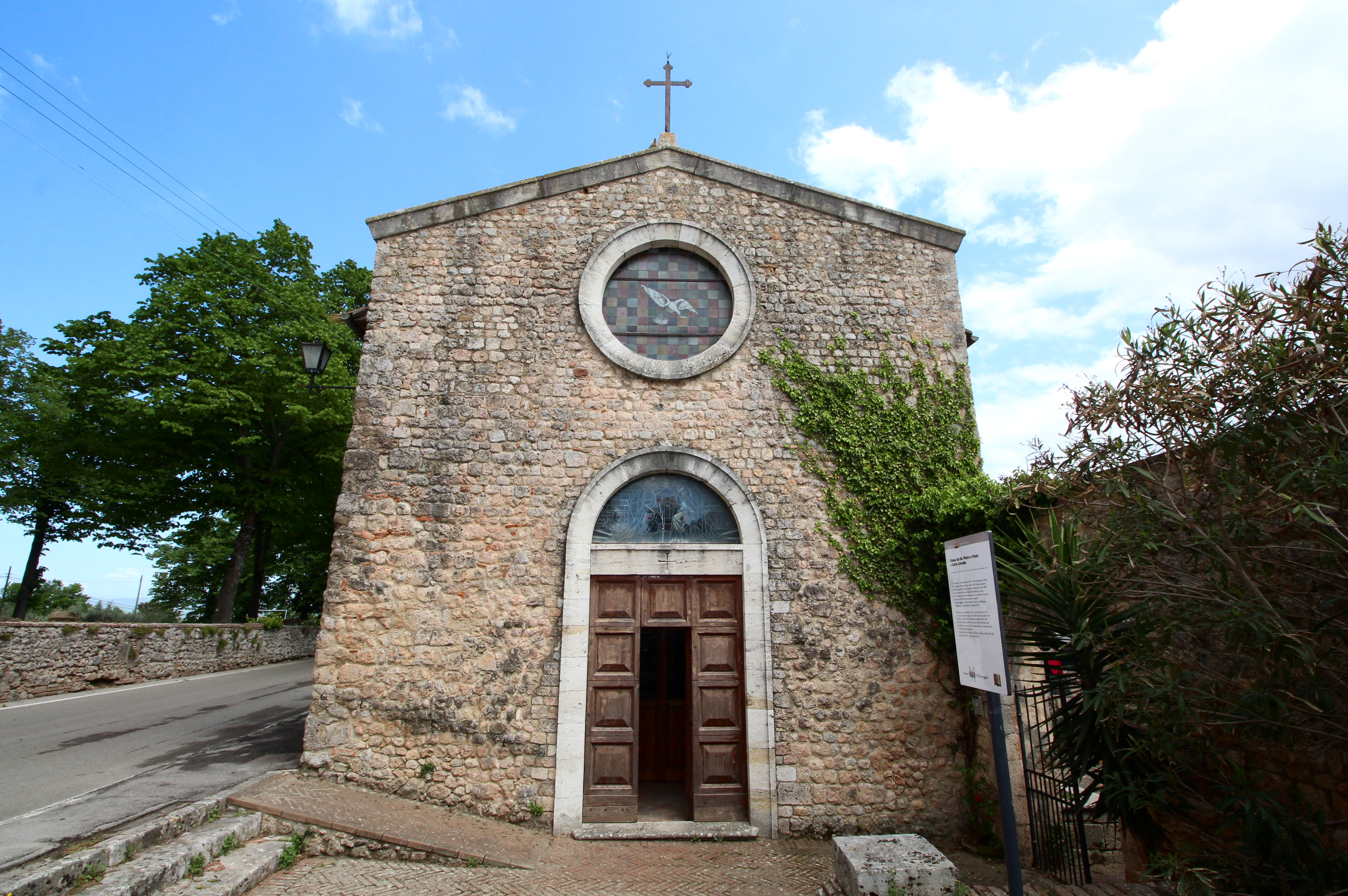 Church Santi Pietro e Paolo, 12th Century, Santa Colomba, hamlet of Monteriggioni, Province of Siena, Tuscany, Italy